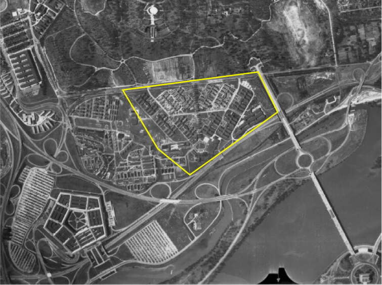 1949 Aerial Photograph highlighting the site of Arlington Farms, temporary World War II housing for female civil servants and service members.